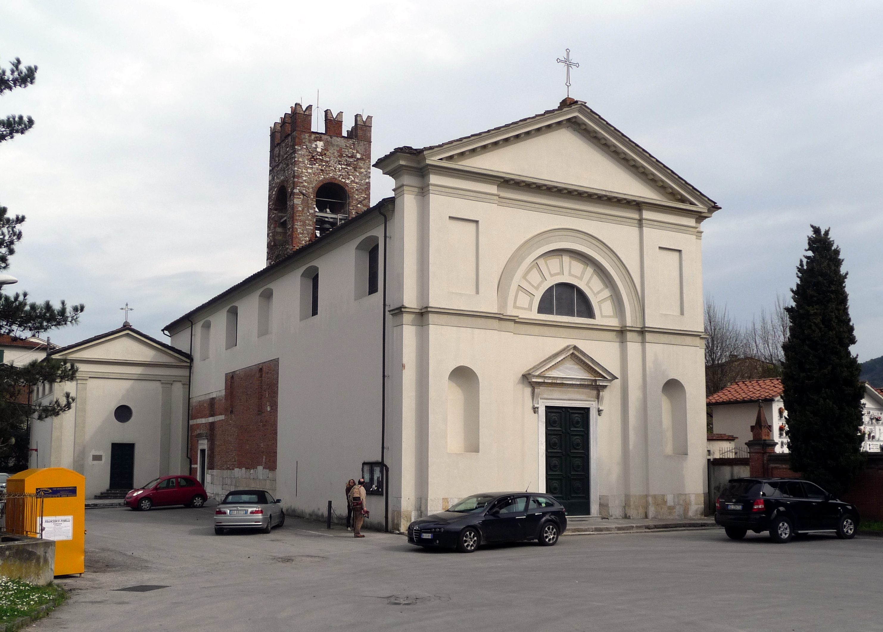 Church "San Giovanni Battista", Montuolo, Lucca, Tuscany